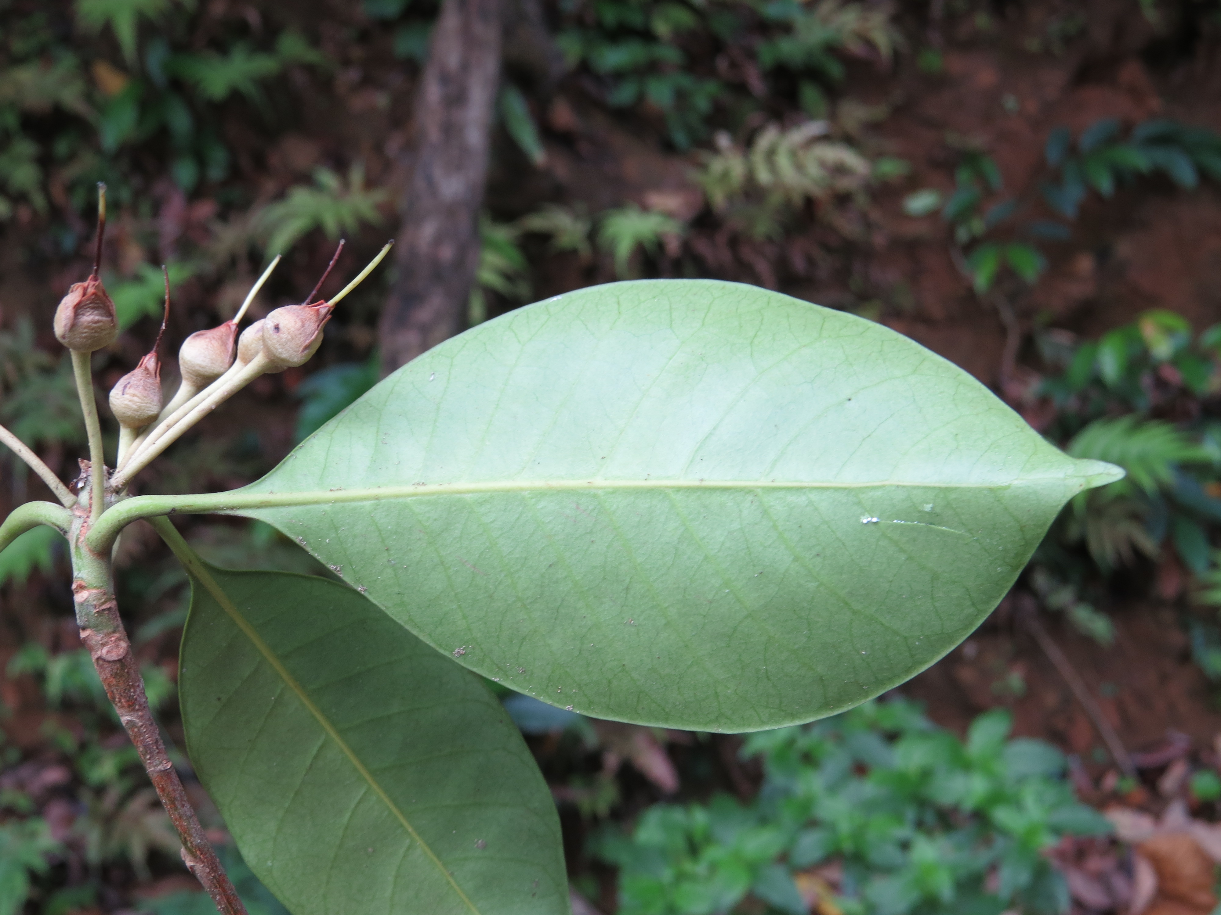 Palaquium ellipticum